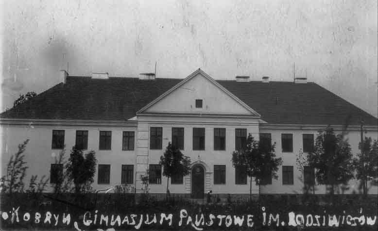 State Gymnasium of Mary Rodziewiczówny in Kobrin, Polesie, Belarus